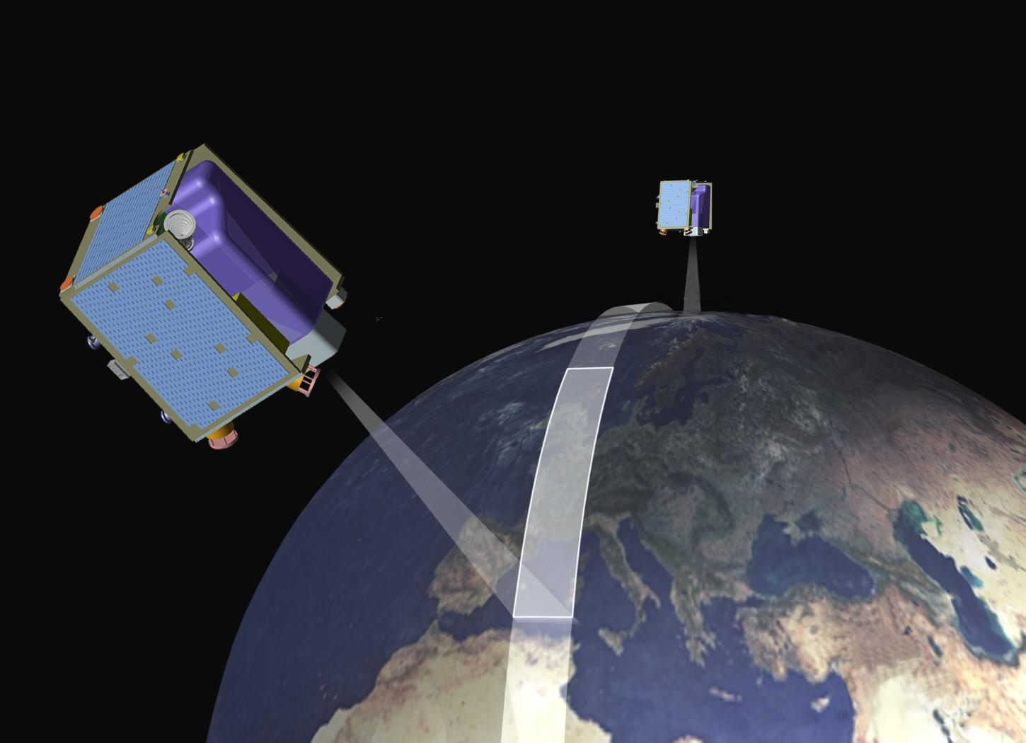 The RapidEye satellite constellation in action around the Earth